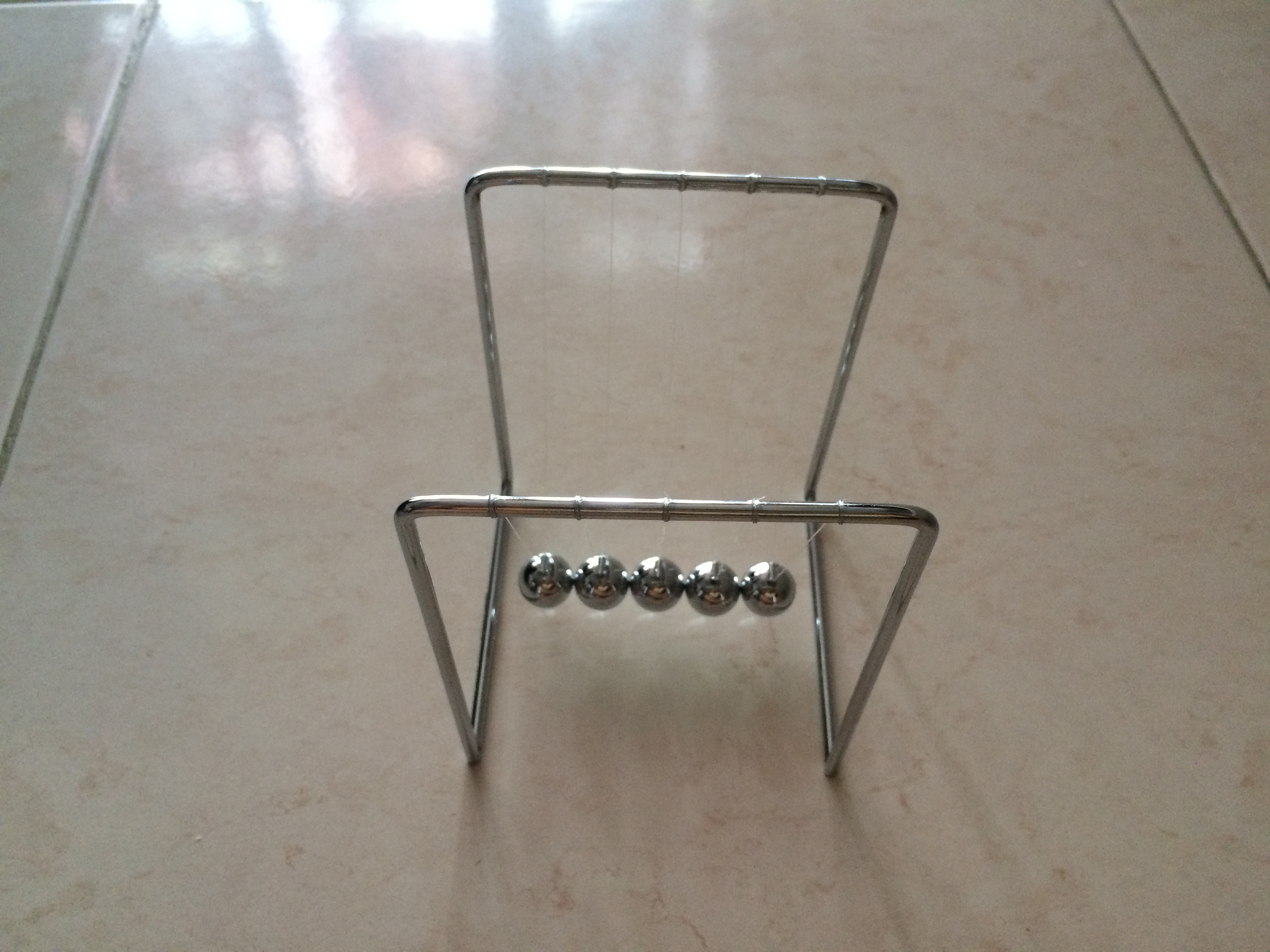 A newton’s cradle not in motion.